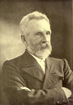 Rev. George Brown (7 December 1835 – 7 April 1917), English Methodist missionary in the Pacific. Gagana Samoa: George Brown, le misionare i Samoa, na amata le faigaluega o le Lotu Metotisi i Piula